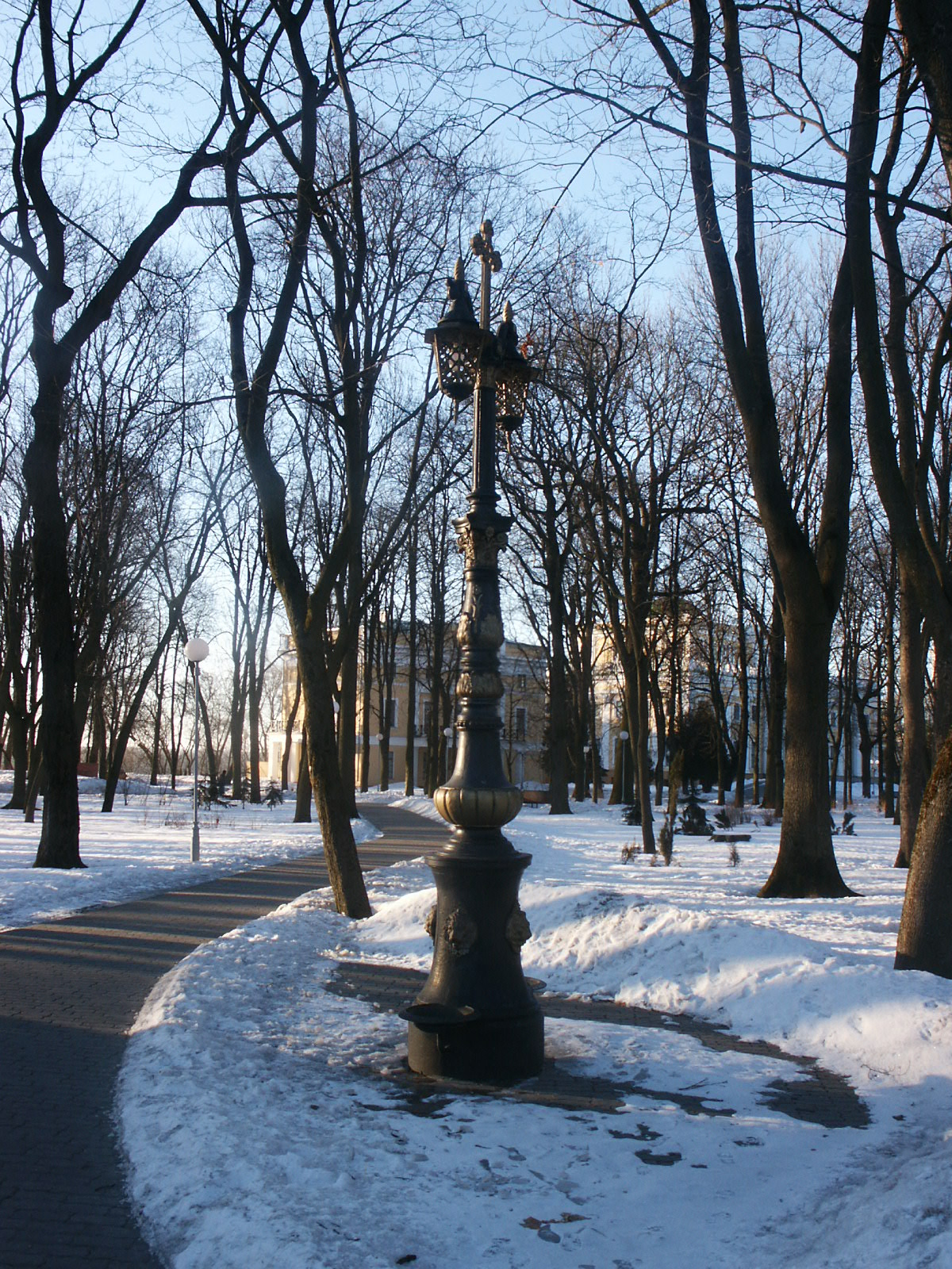 Palace of Pashkevichs, Homel, Belarus.